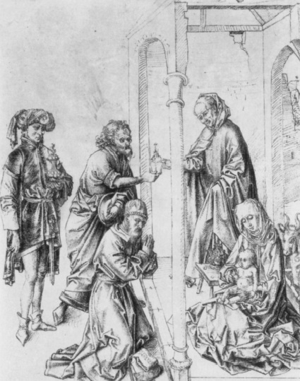 Adoration of the Maji, after Diork Bouts. Pen on ink. Uffizi, Florence.